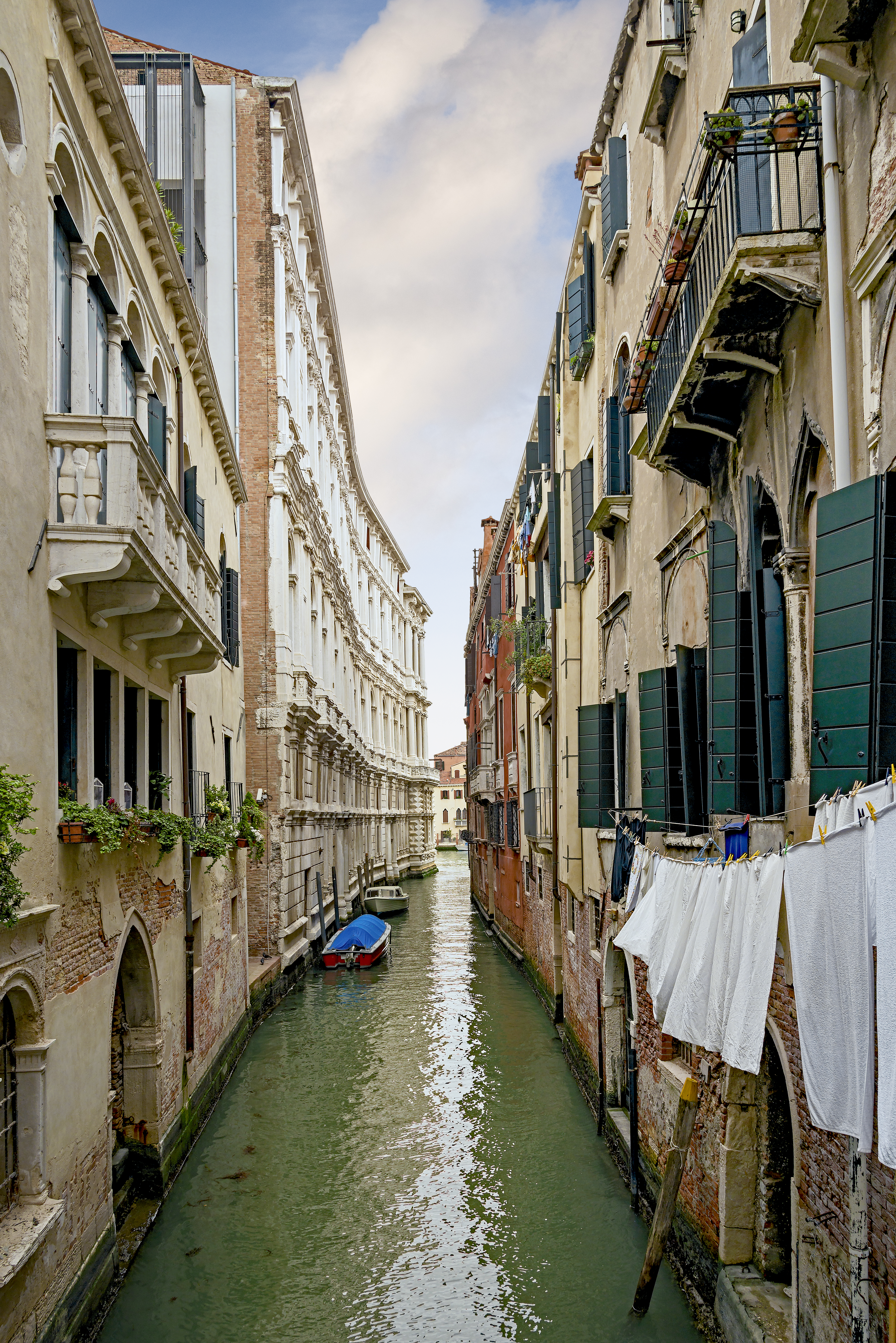 Rio delle Due Torri Venice. View from Ponte del Ràvano to the Grand Canal.